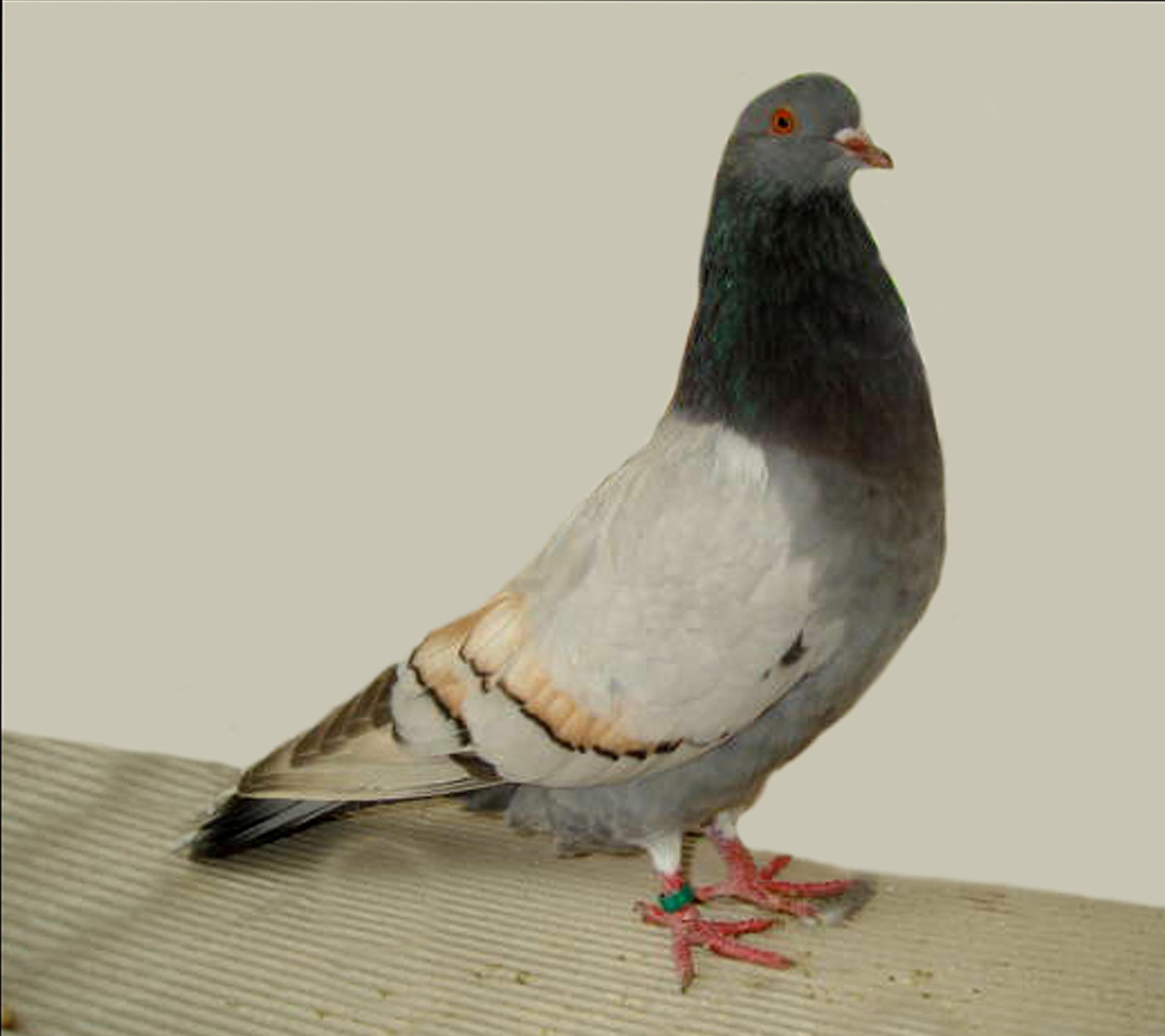 Cauchois (yellow barred silver)